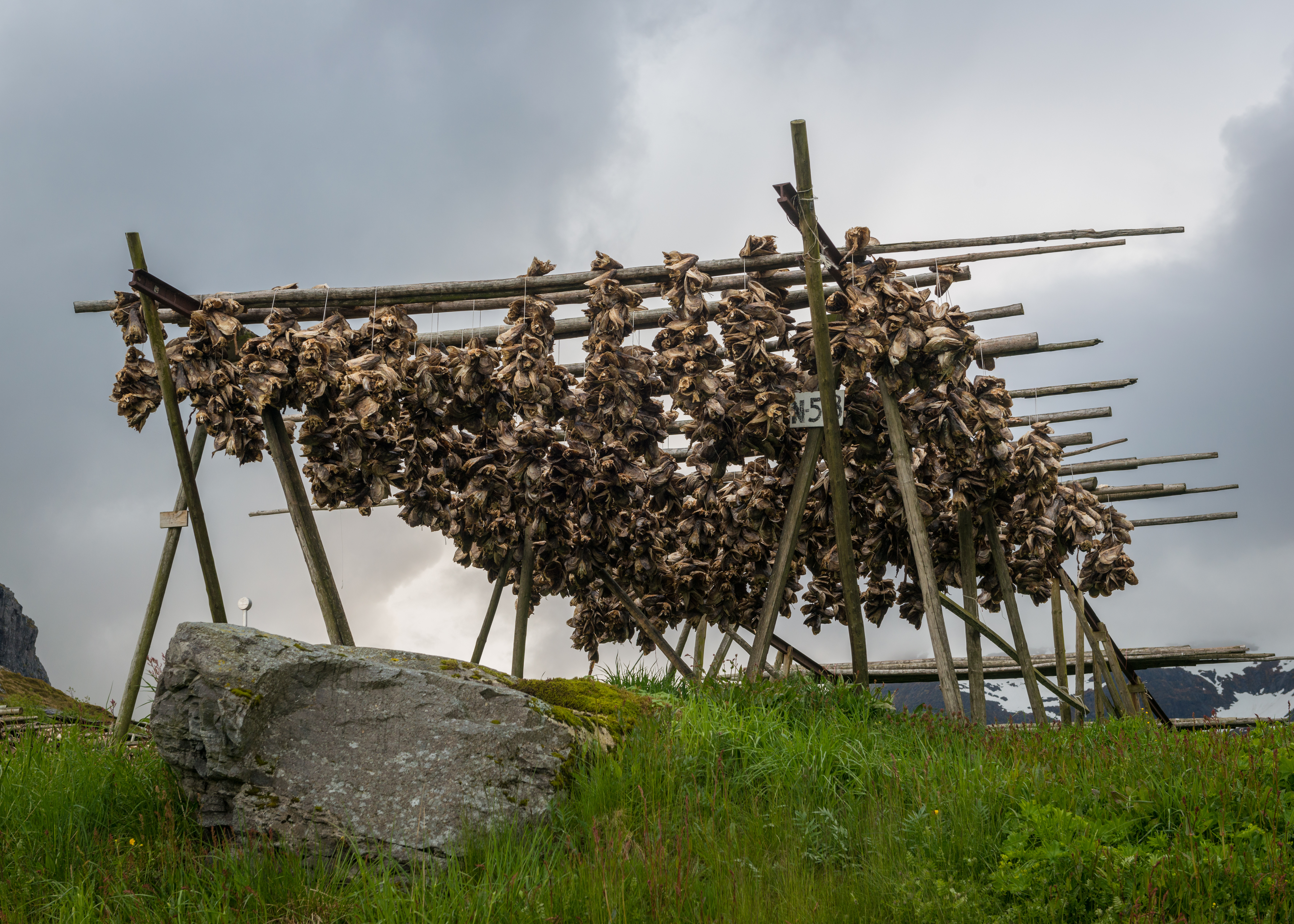 Å i Lofoten, Nordland. Drying of cod fish heads. The head and the body of the cod fish are separated before drying. The heads are used for fertiliser.